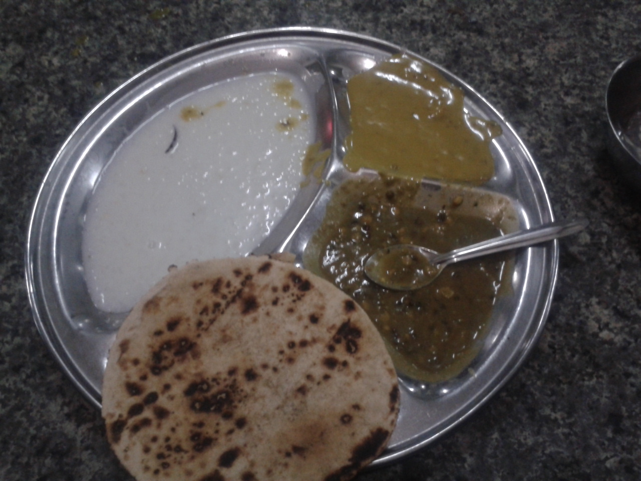 Golden Temple or Harmandir Sahib